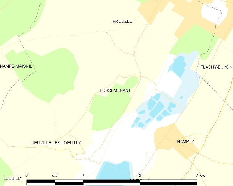 Map of French municipality Fossemanant